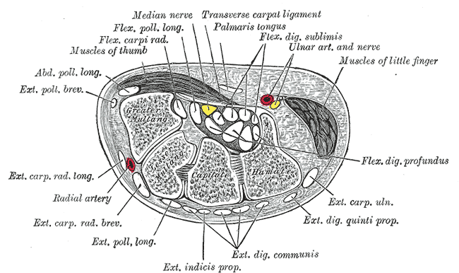 for more description and en/de-translation-table see File:Carpal-Tunnel.svg